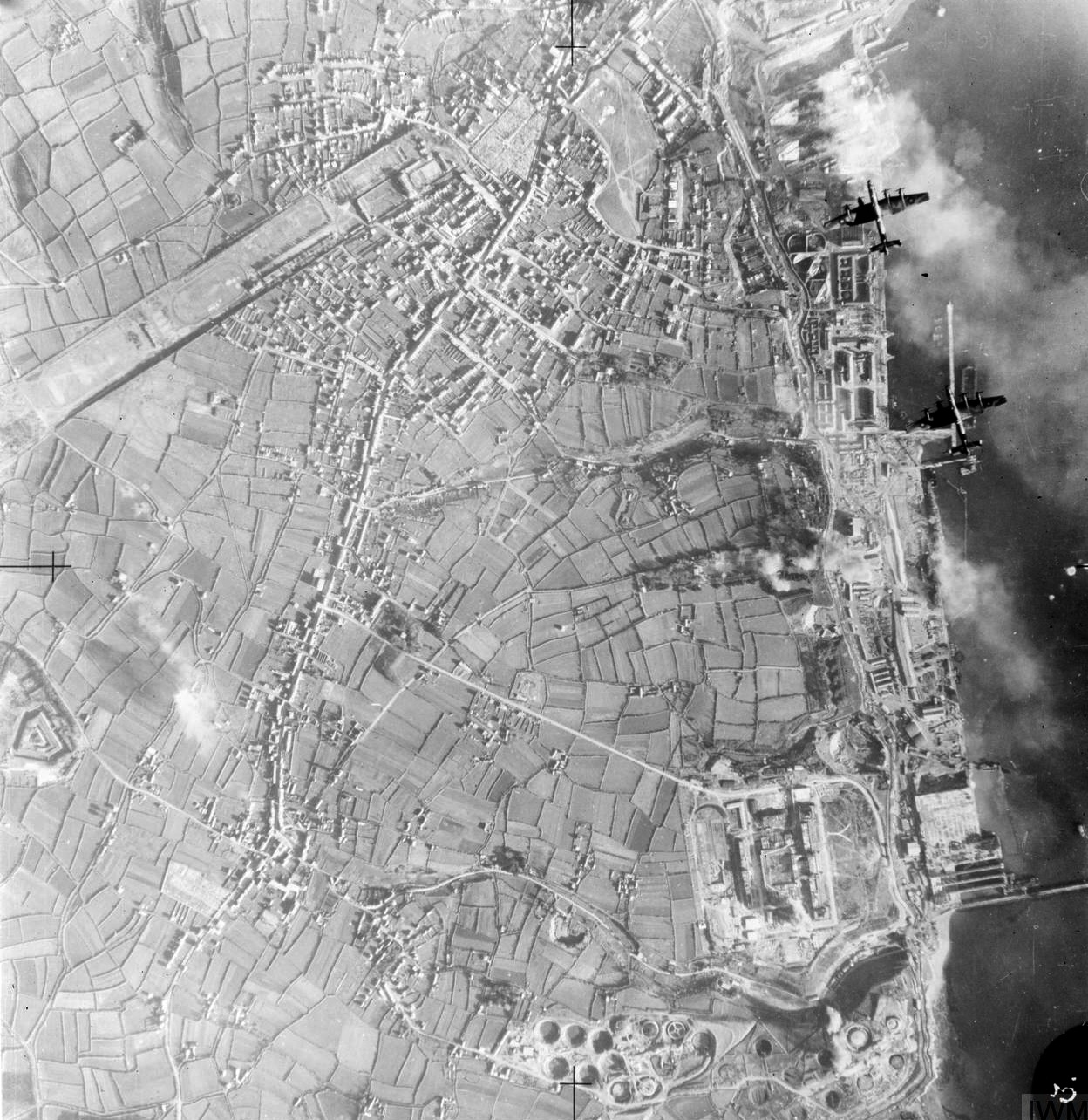 Royal Air Force Bomber Command, 1939-1941. Vertical aerial photograph taken during a daylight attack on German warships docked at Brest, France. Two Handley Page Halifaxes of No. 35 Squadron RAF (upper right) fly over the naval dockyard, towards the dry docks in which the battlecruisers SCHARNHORST and GNEISENAU are berthed (top right), and over which a smoke screen is rapidly spreading. At middle right, a stick of bombs can be seen to have exploded inland from their intended target, PRINZ EUGEN, moored by the quayside. 47 aircraft from Nos. 3, 4 and 5 Groups took part in the operation, claiming accurate bombing on their targets for the loss of 6 aircraft.